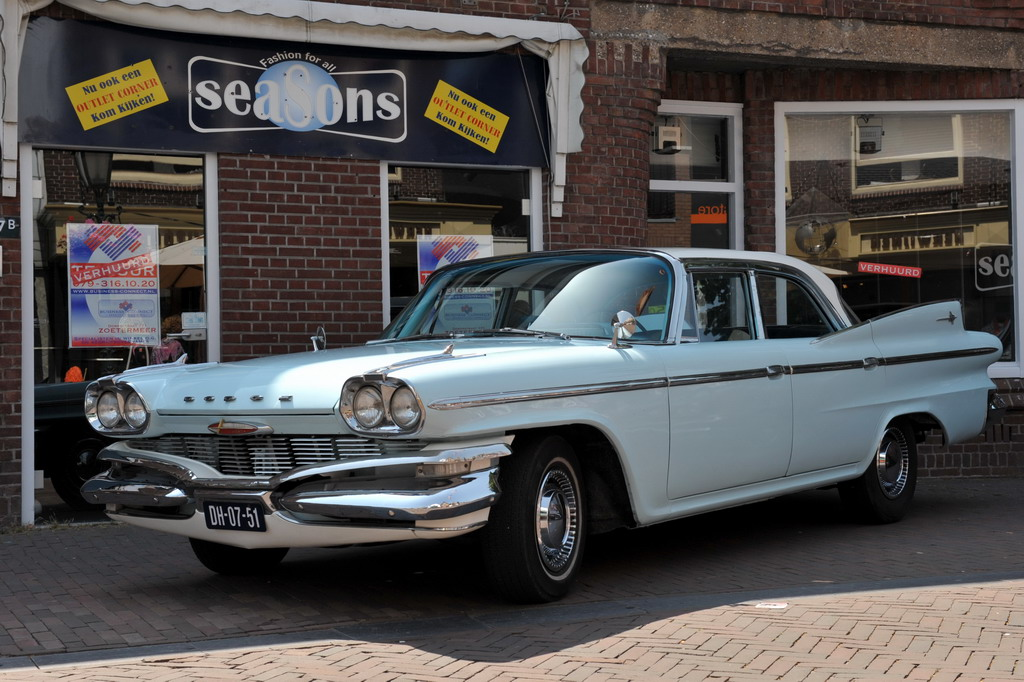 Dodge Matador (photographed in the Netherlands, 2010)